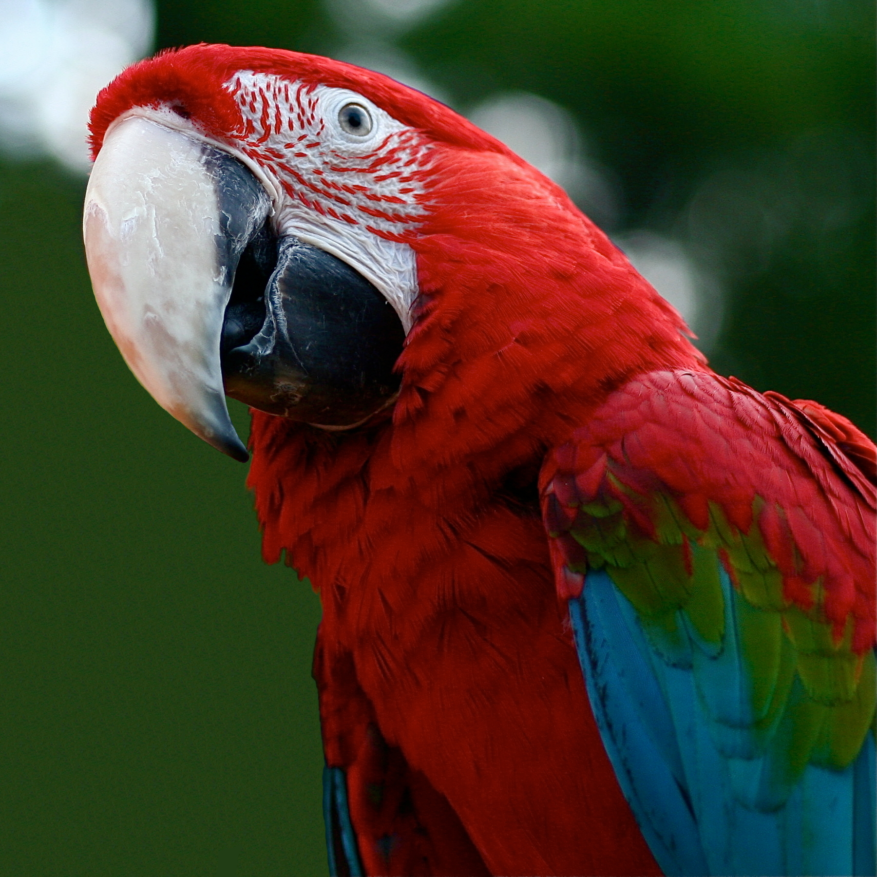 Green-winged Macaw or Red-and-green Macaw (Ara chloropterus) head and neck details.